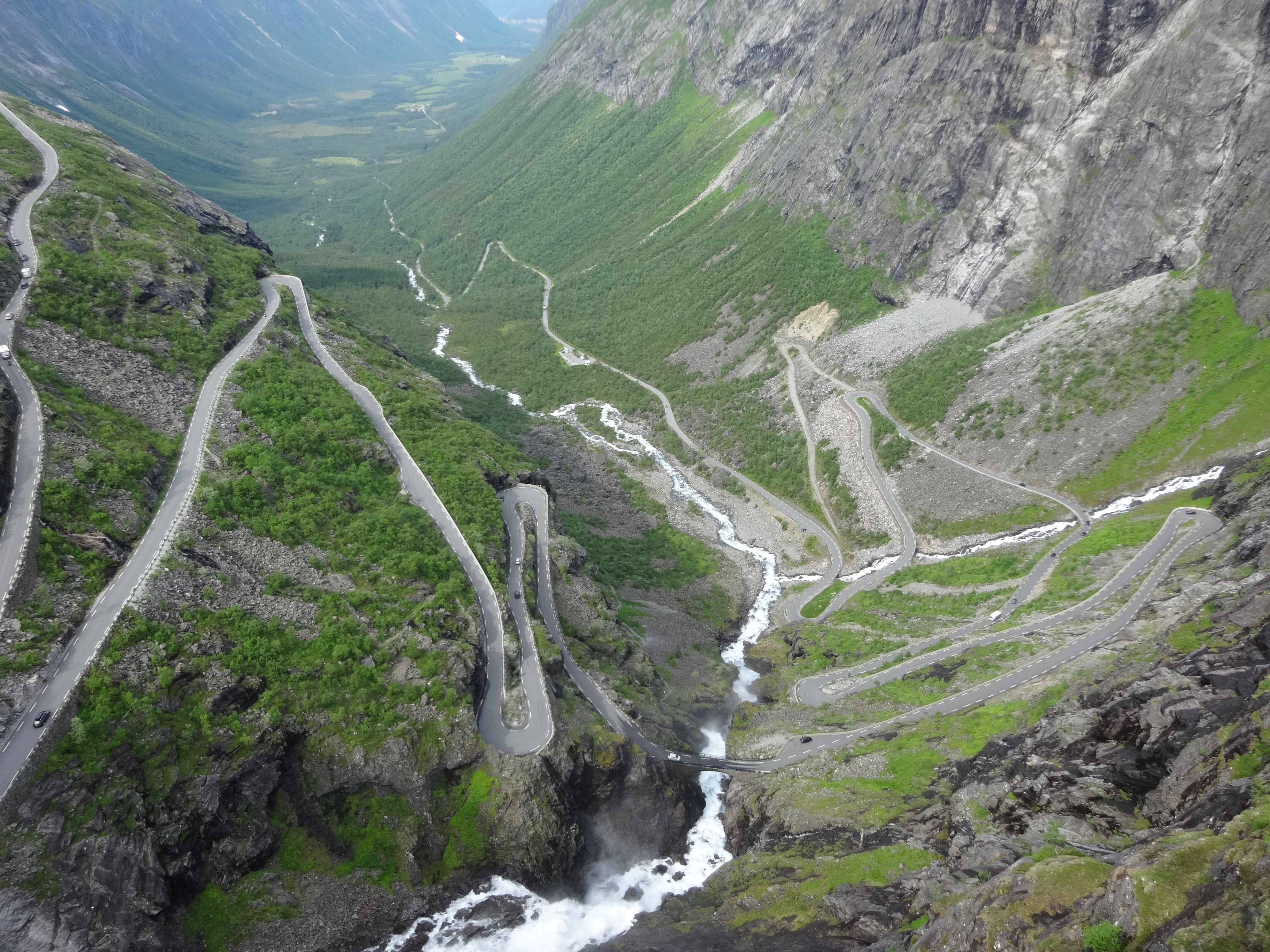 View over Trollstigen